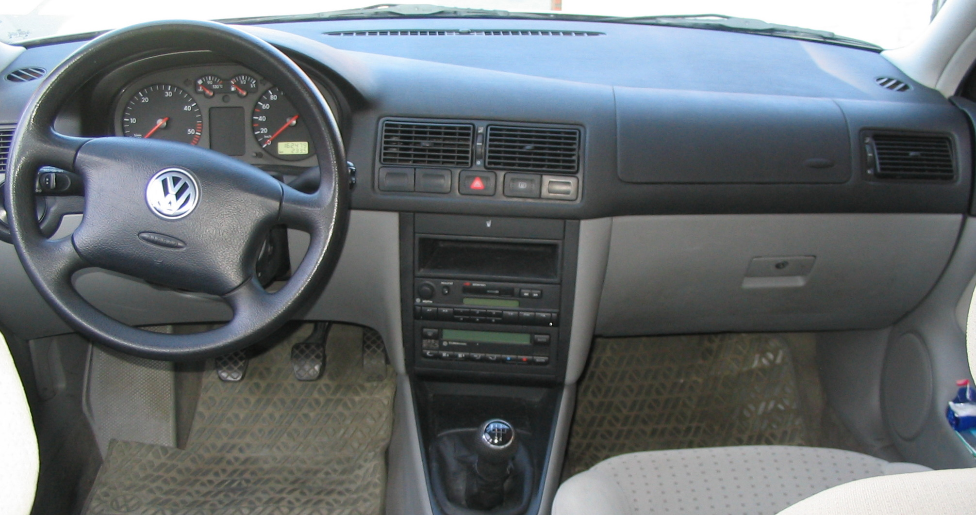 Dashboard of a 1999 VW Golf TDI 66 kW (90 HP) with cruise control